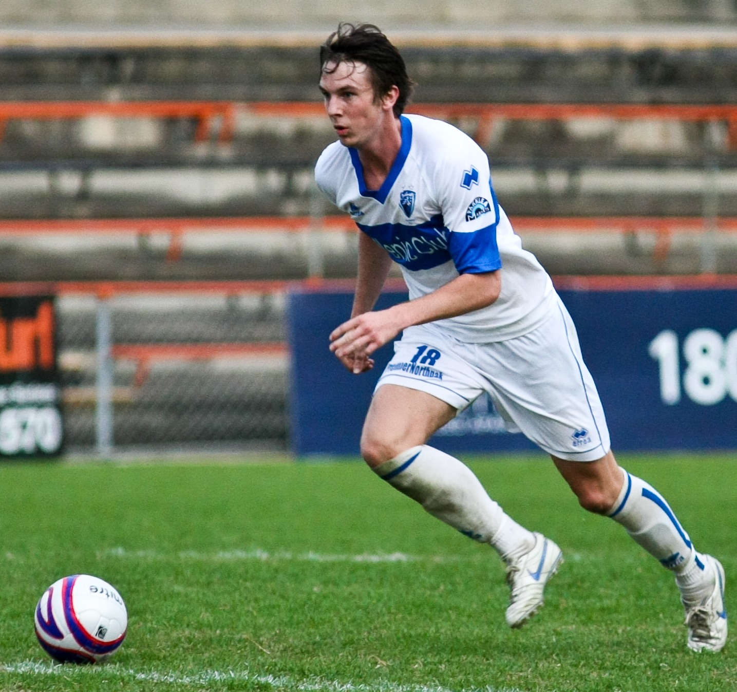 Adam Biddle playing for Sydney Olympic against the Sydney Tigers in Round 13 of the 2009 New South Wales Premier League.